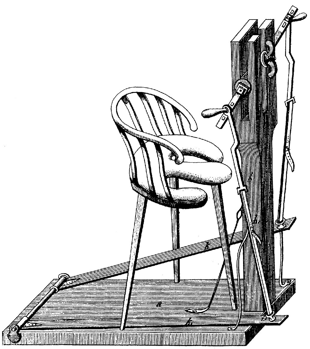 A machine for rehabilitation invented by Karl Heinrich Klingert in 1810.